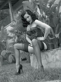 Dita Von Teese photographed by Steve Diet Goedde.